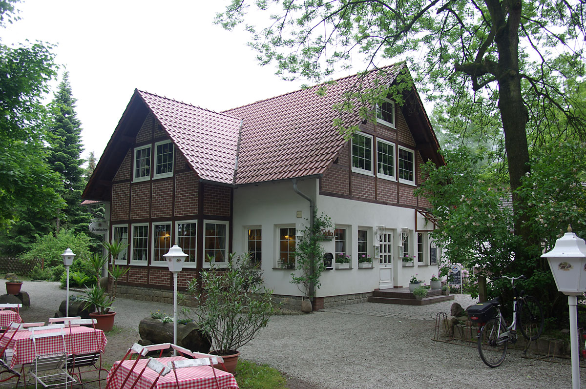 The mill „Koselmühle“ near Kolkwitz, Brandenburg, Germany